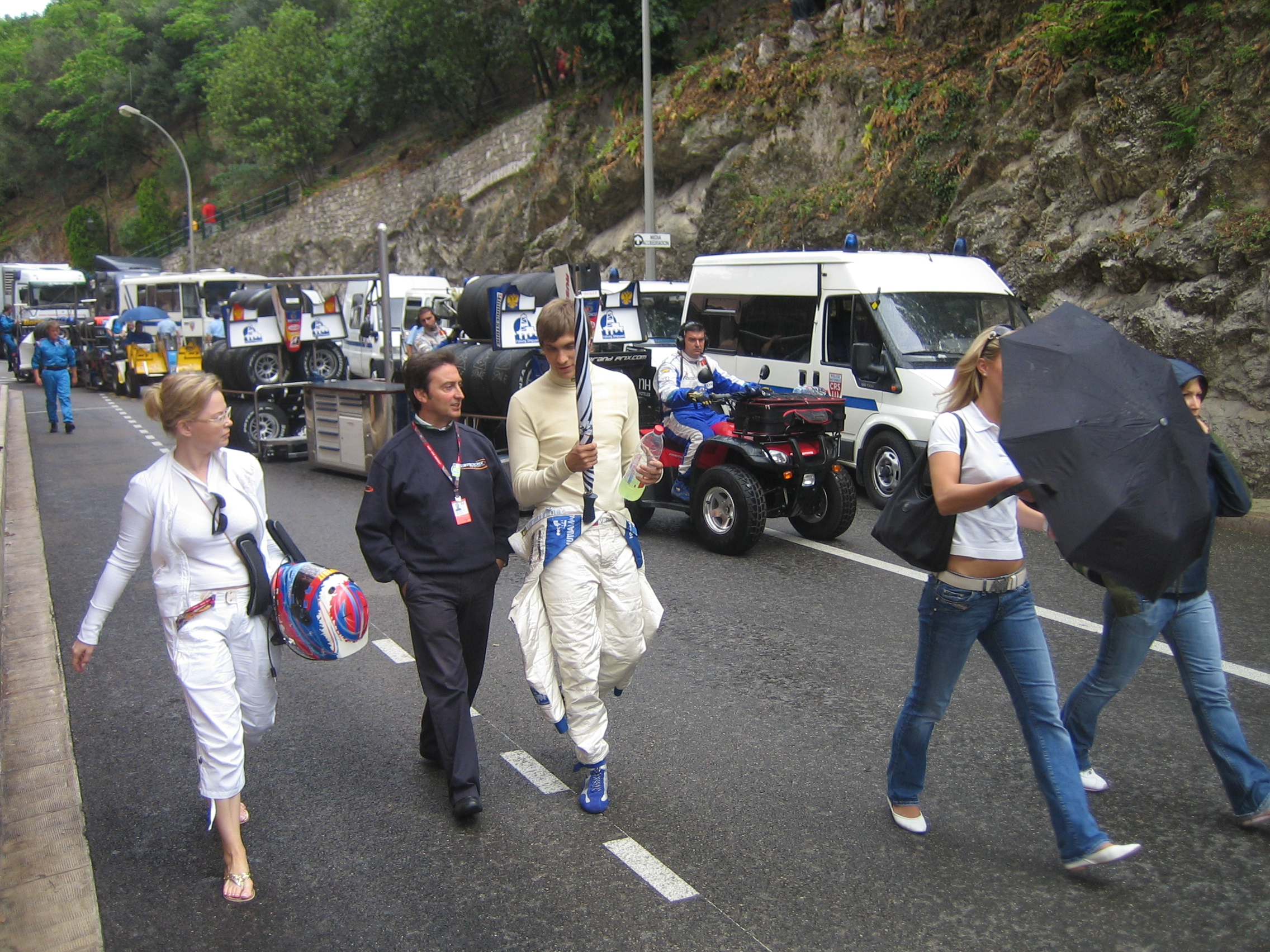 GP2 driver Vitaly Petrov on the way to the start of the Monaco GP2 race on Saturday, May 26, 2007. He did well to finish sixth.